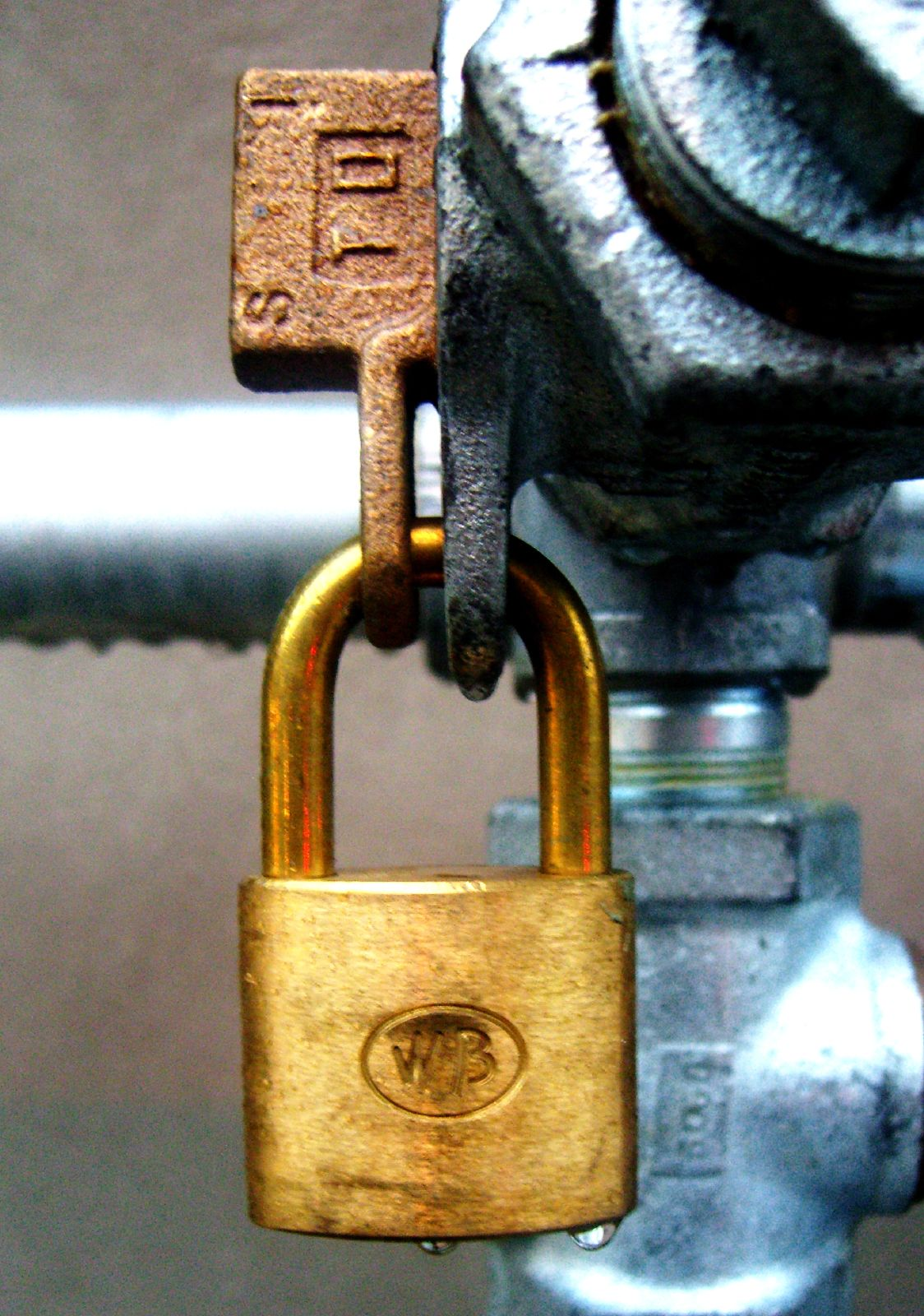 an homage to Andre and his urban locks